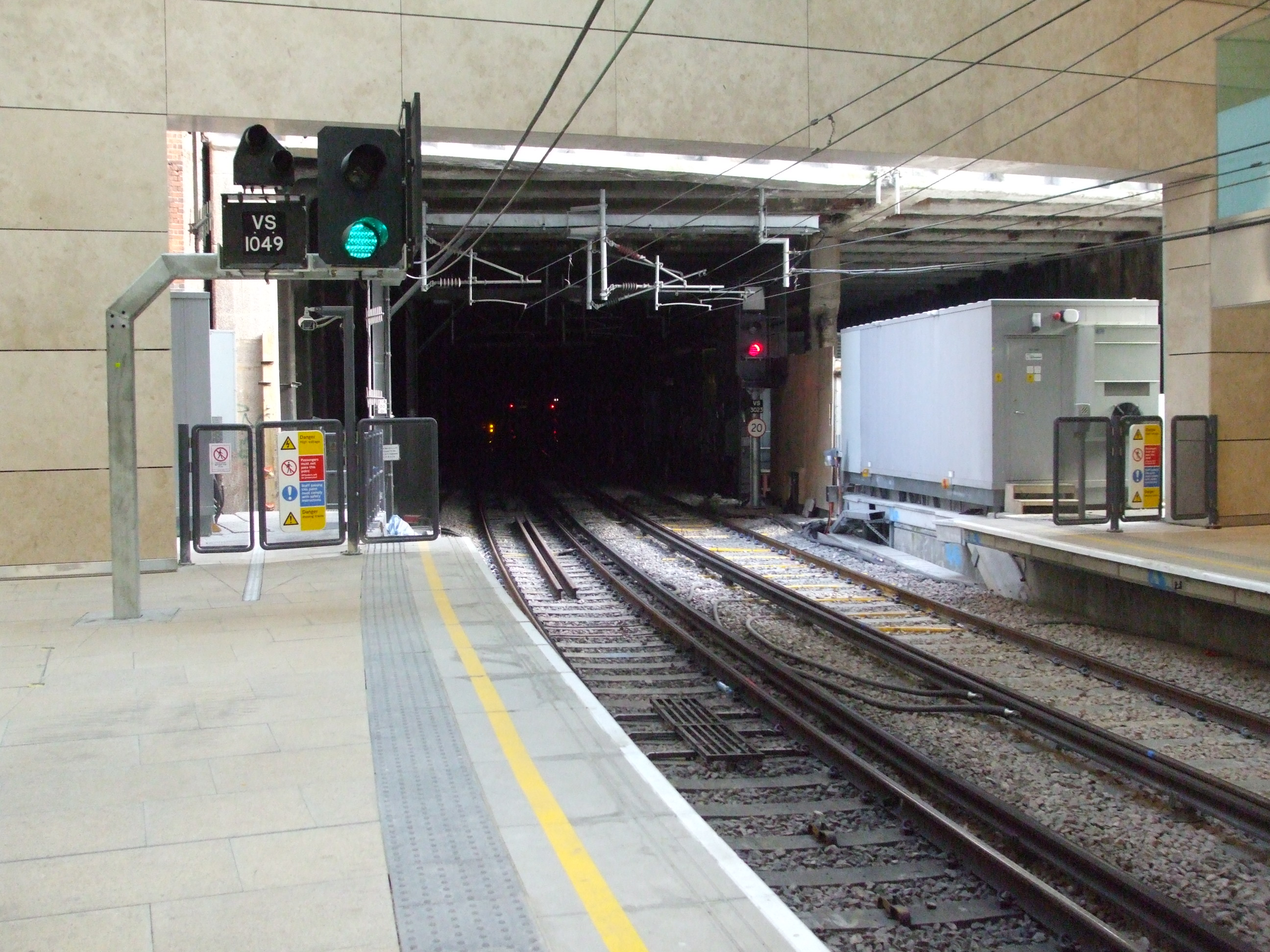 Farringdon station Thameslink platform southward extension looking south in 2012. The platform extensions severed the original main line tracks to Moorgate - these closed in 2009.